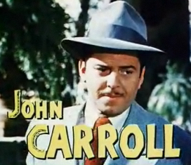 Cropped screenshot of John Carroll from the trailer for the film Fiesta